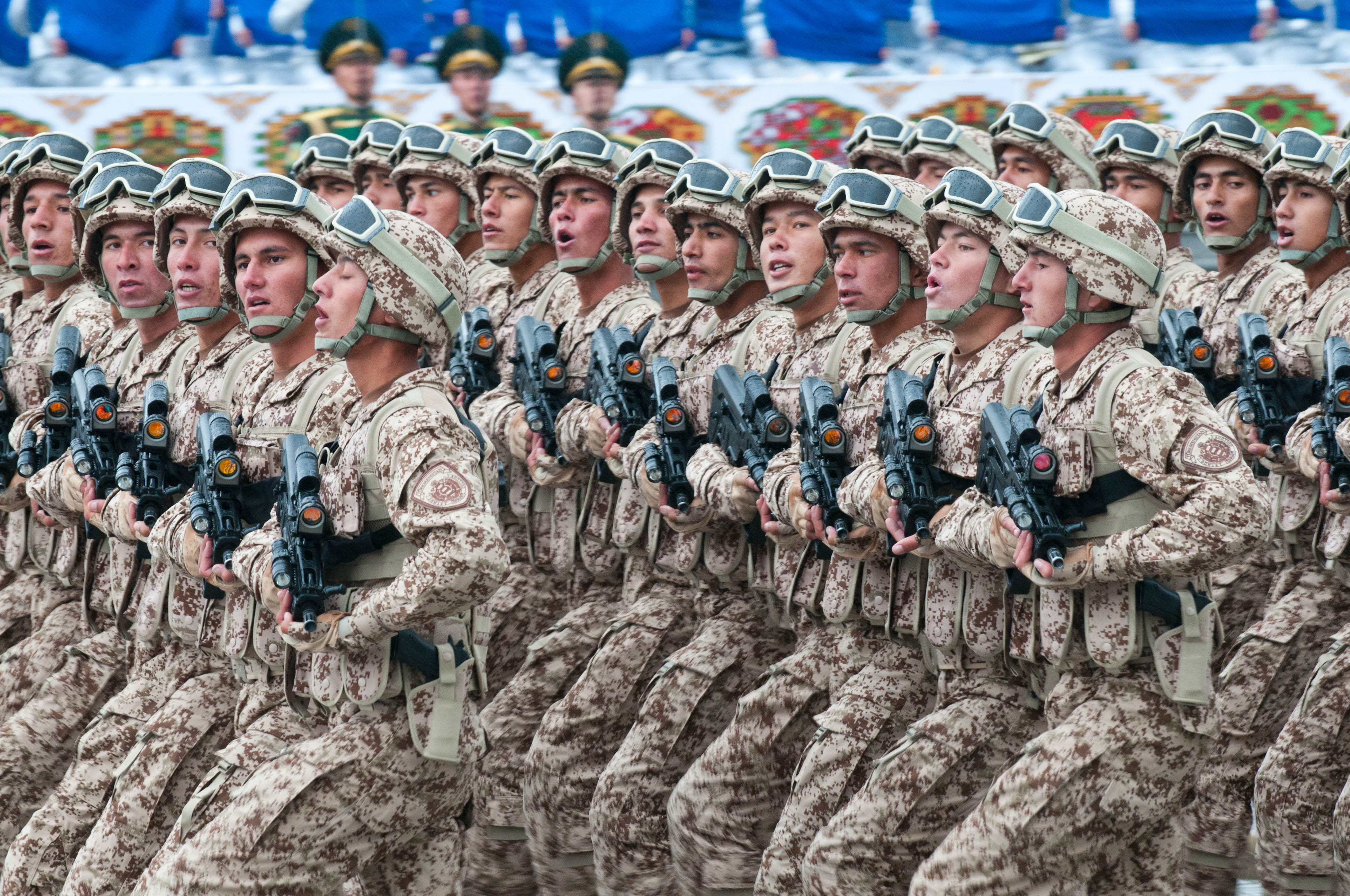 Celebrating the 20th year of independence in Turkmenistan